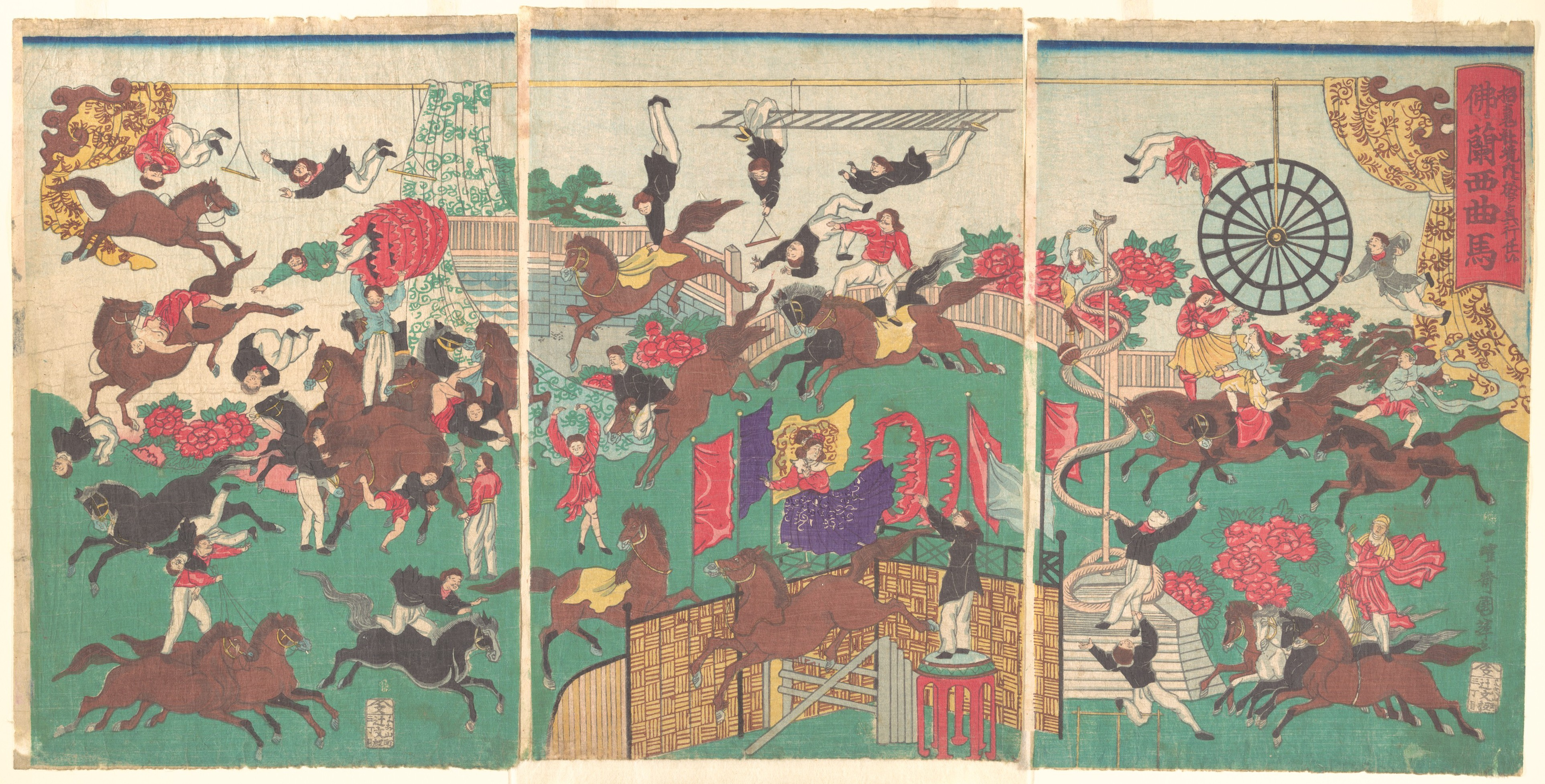 The Shōkonsha is a shrine sacred to the spirits of the heroes who fell fighting for their country.